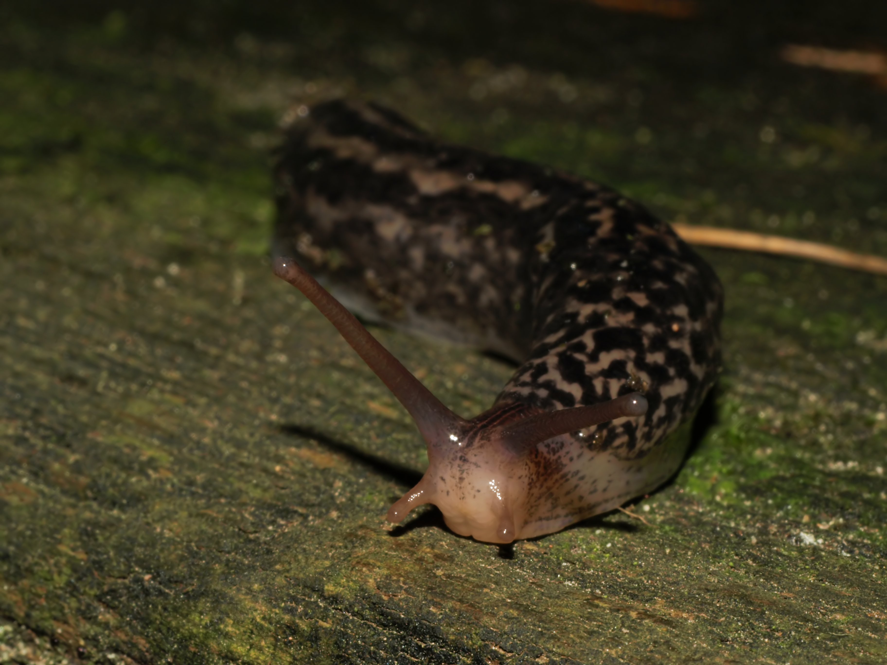 Great Grey Slug, Limax maximus.